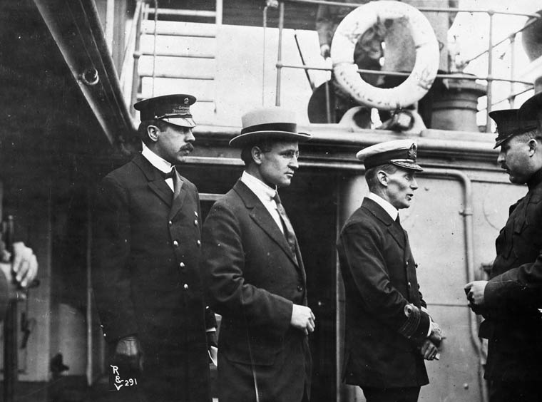 (L-R:)Inspector Reid, H.H. Stevens and Capt. Walter J. Hose on board the "Komagata Maru" in English Bay, Vancouver, British Columbia